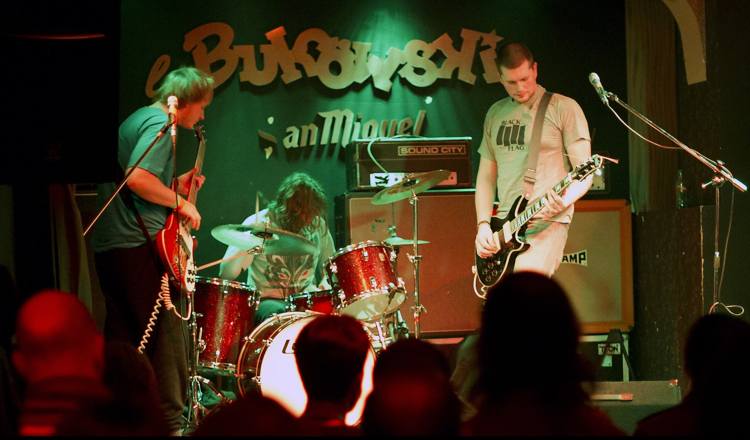 The Machine at Le Bukowski (San Sebastian/Donostia)